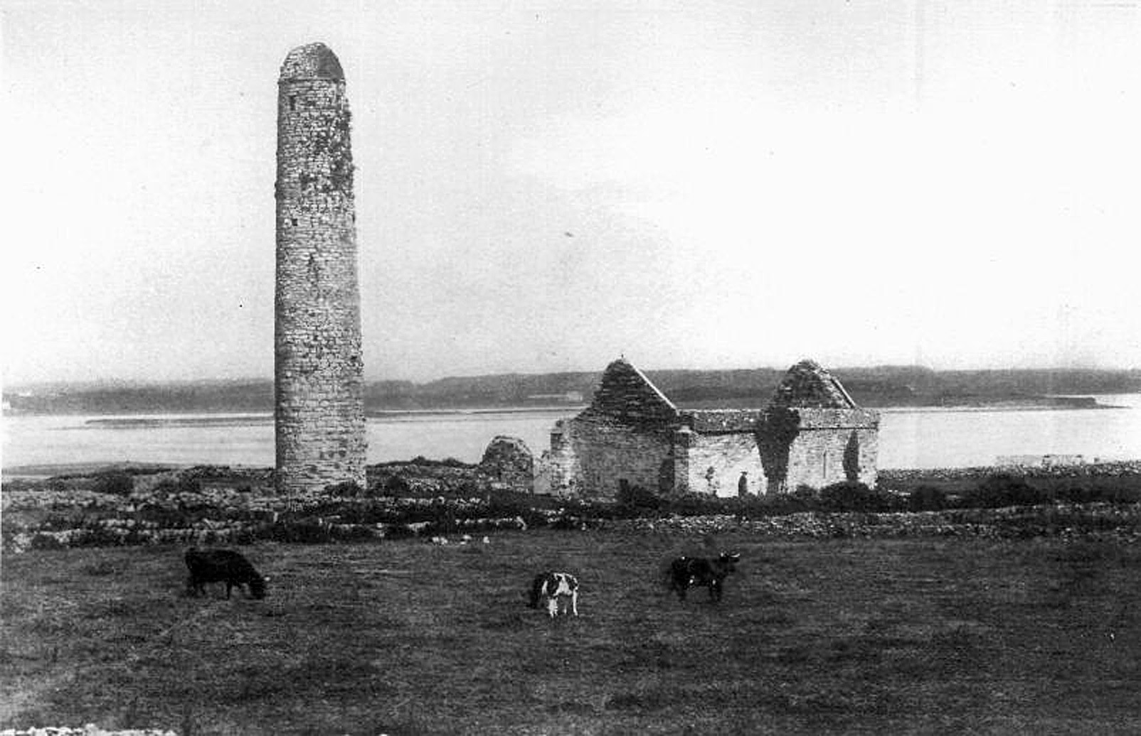 RUINS ON SCATTERY ISLAND, 1902